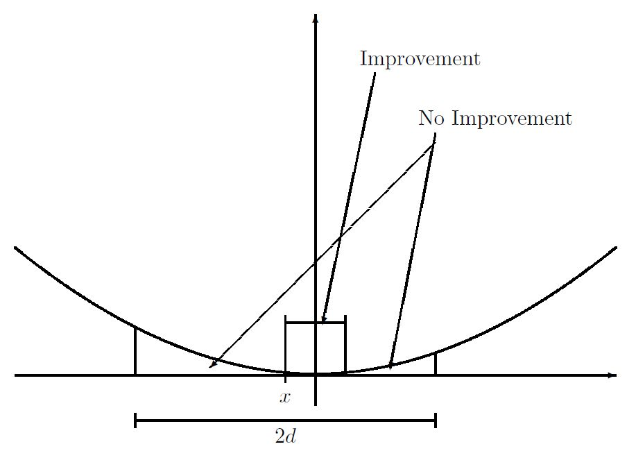 In optimization of a single-dimensional unimodal function by random sampling with a uniform distribution, as the center of the sampling x approaches the optimum the probability of finding further improvements decreases towards zero if the sampling-range d is kept fixed.